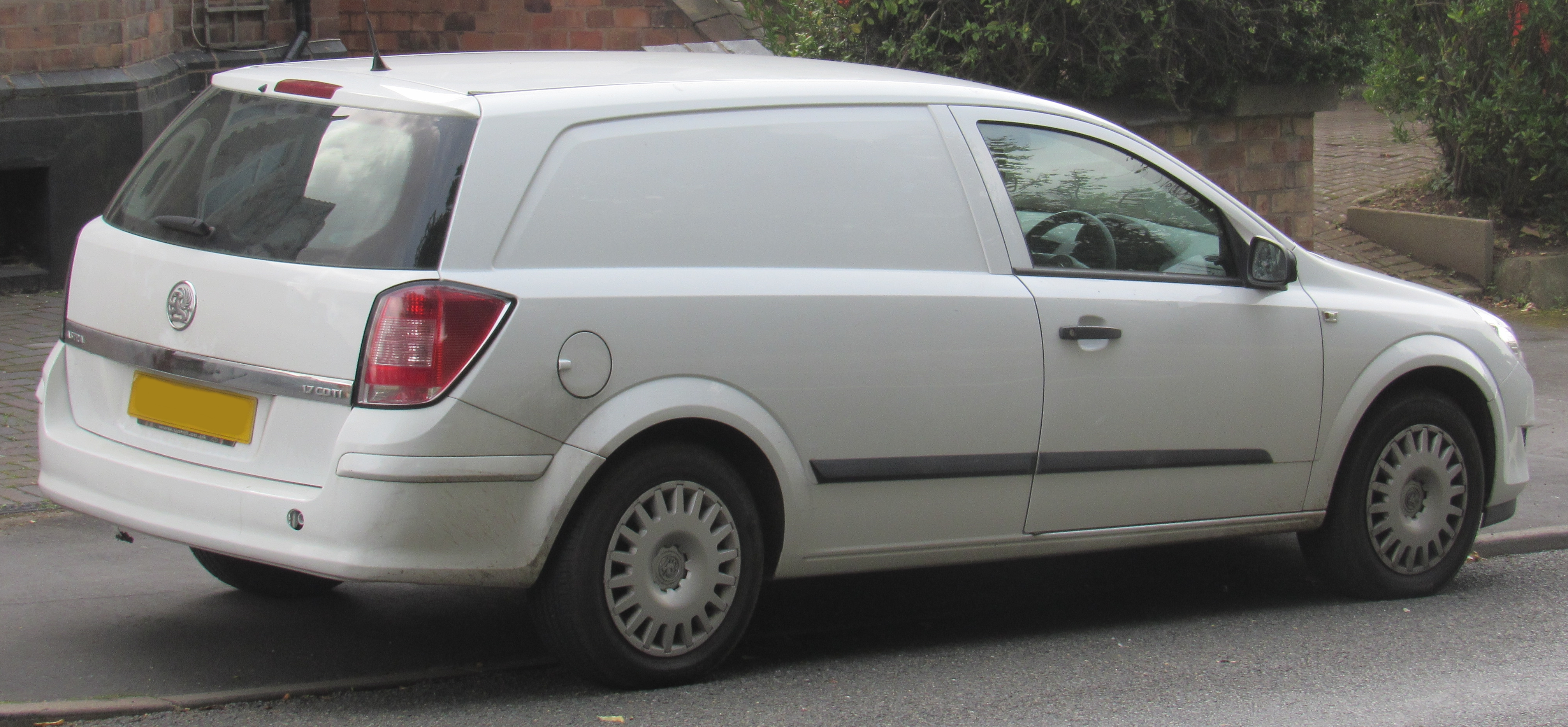 2009 Vauxhall Astravan Club CDTI 1.7 Rear Taken in Leamington Spa